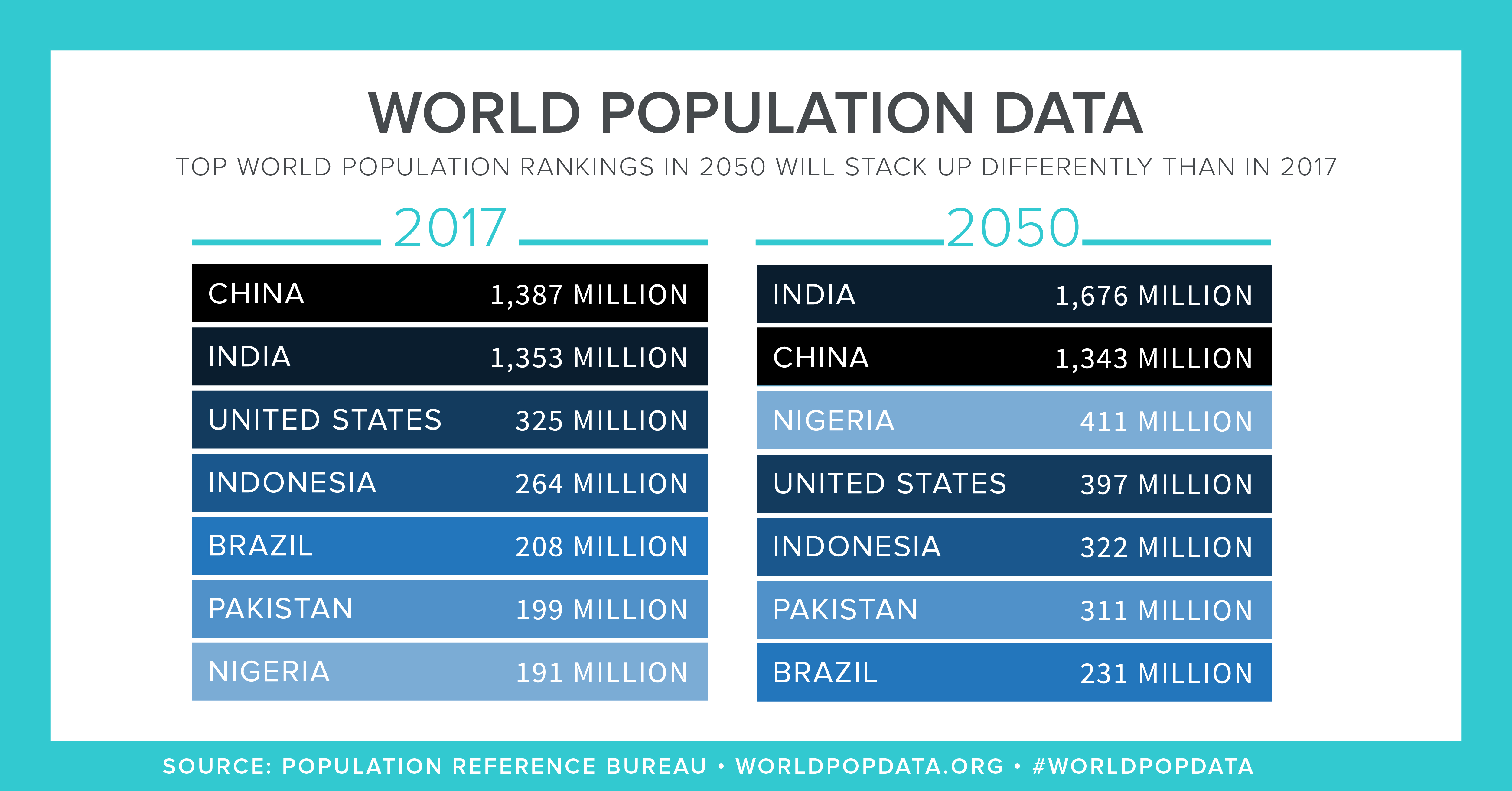 Data Sheet Largest Populations increase projected between 2017 and 2050